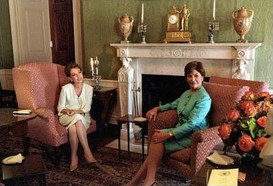 Laura Bush hosts a tea in the Green Room for Mexico's visiting First Lady Martha Sahagun de Fox.